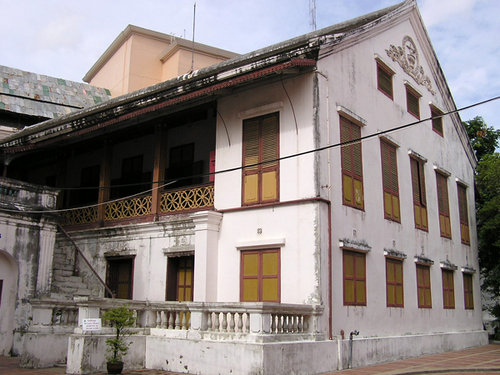 Issaretrachanusorn Hall, Bangkok National Museum (Wang Na) , Bangkok , Thailand